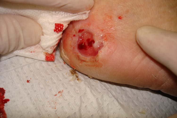 A 68-year-old diabetic female on dialysis presented with a chronic right heel ulcer (3.4 cm X 3.1 cm) of greater than 3 months duration. Photograph of the wound after thorough wound bed preparation over the course of 2 weeks.